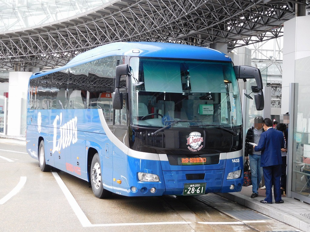 Seibu bus Isuzu Gala highwaybus "Shinjuku,Ikebukuro-Kanazawa"